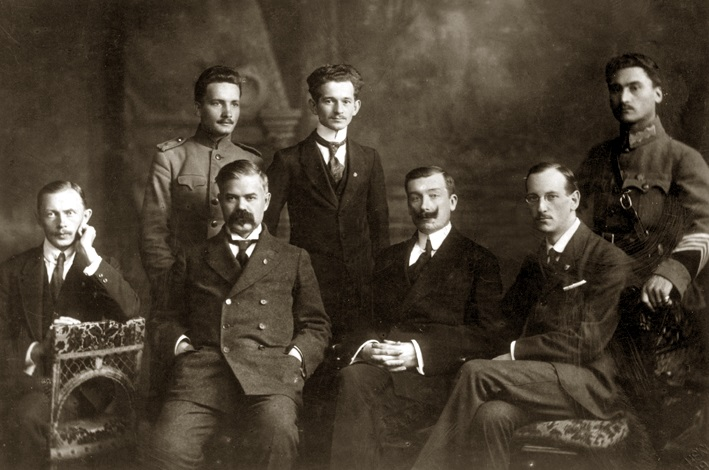 Ukrainian People's Republic diplomatic mission in Hungary, about 1918-1920